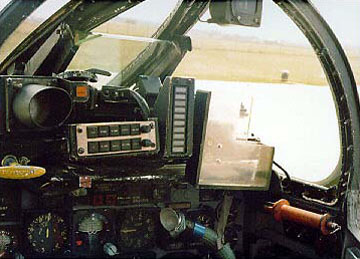 North American F-100D Cockpit